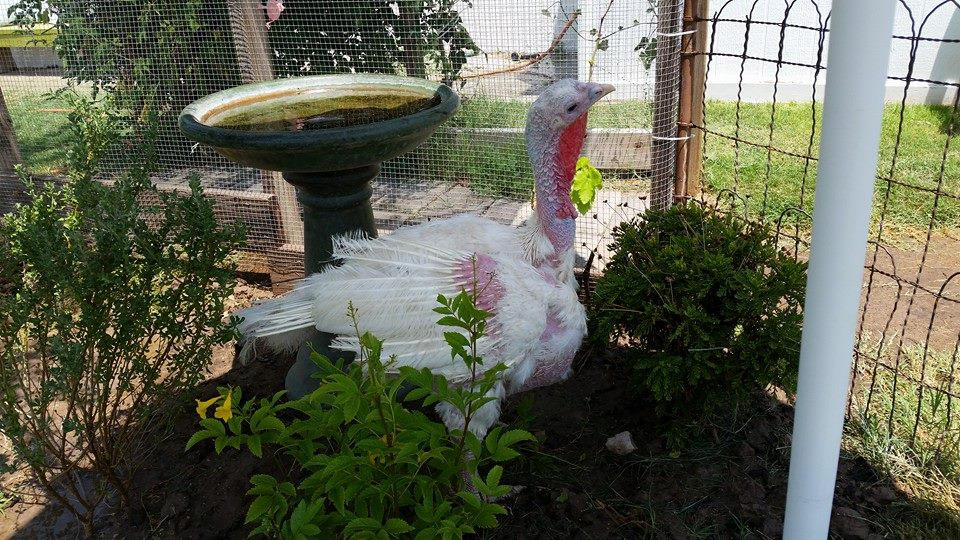 Rescued domesticated turkey.